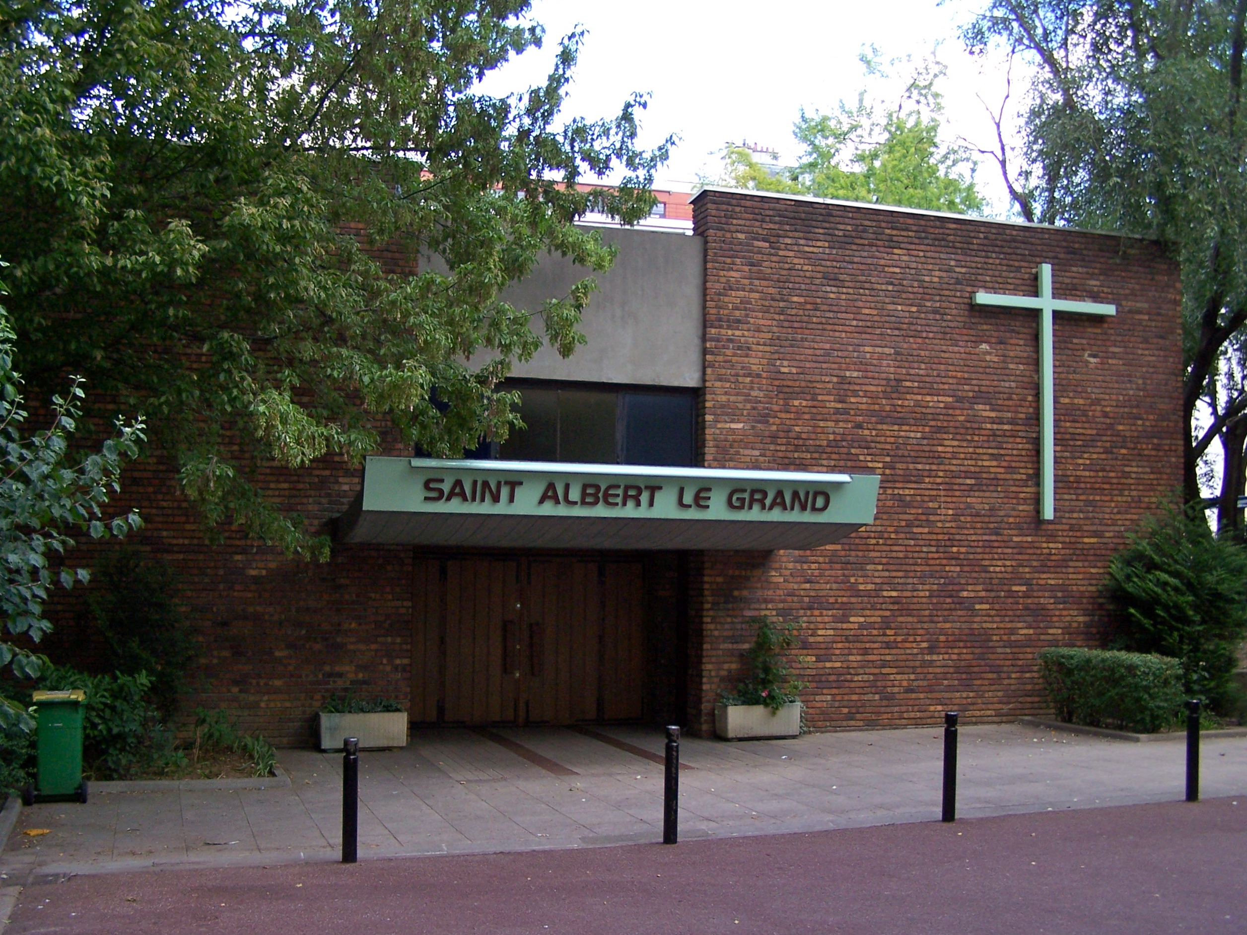 View of the church in Paris at rue de la Glacière